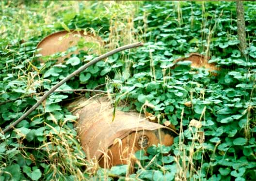 Description: Rusting chemical drums, south side of Bowers Landfill, Drums on south side of landfill, October 4, 1988.